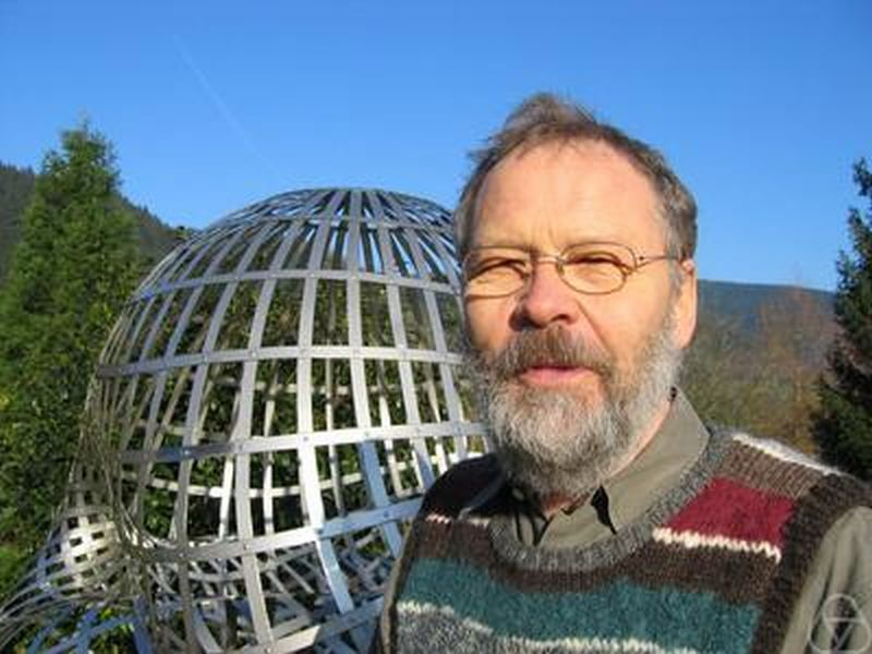 Henning Stichtenoth, Oberwolfach 2004